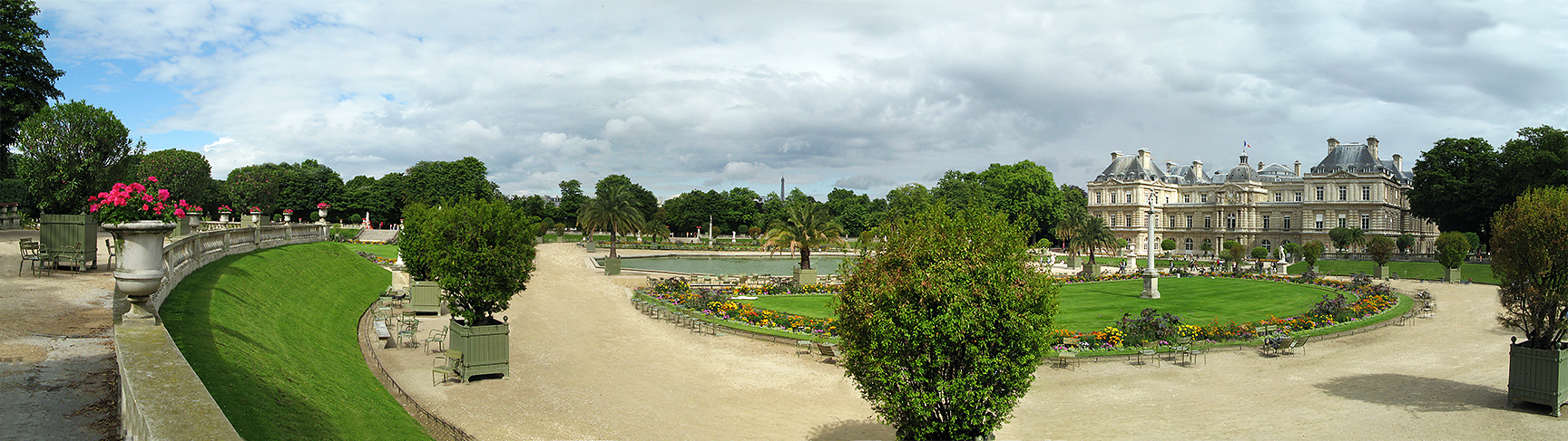 View this photo large on black Luxembourg Palace and gardens in Paris. This was stiched together from four separate photos.